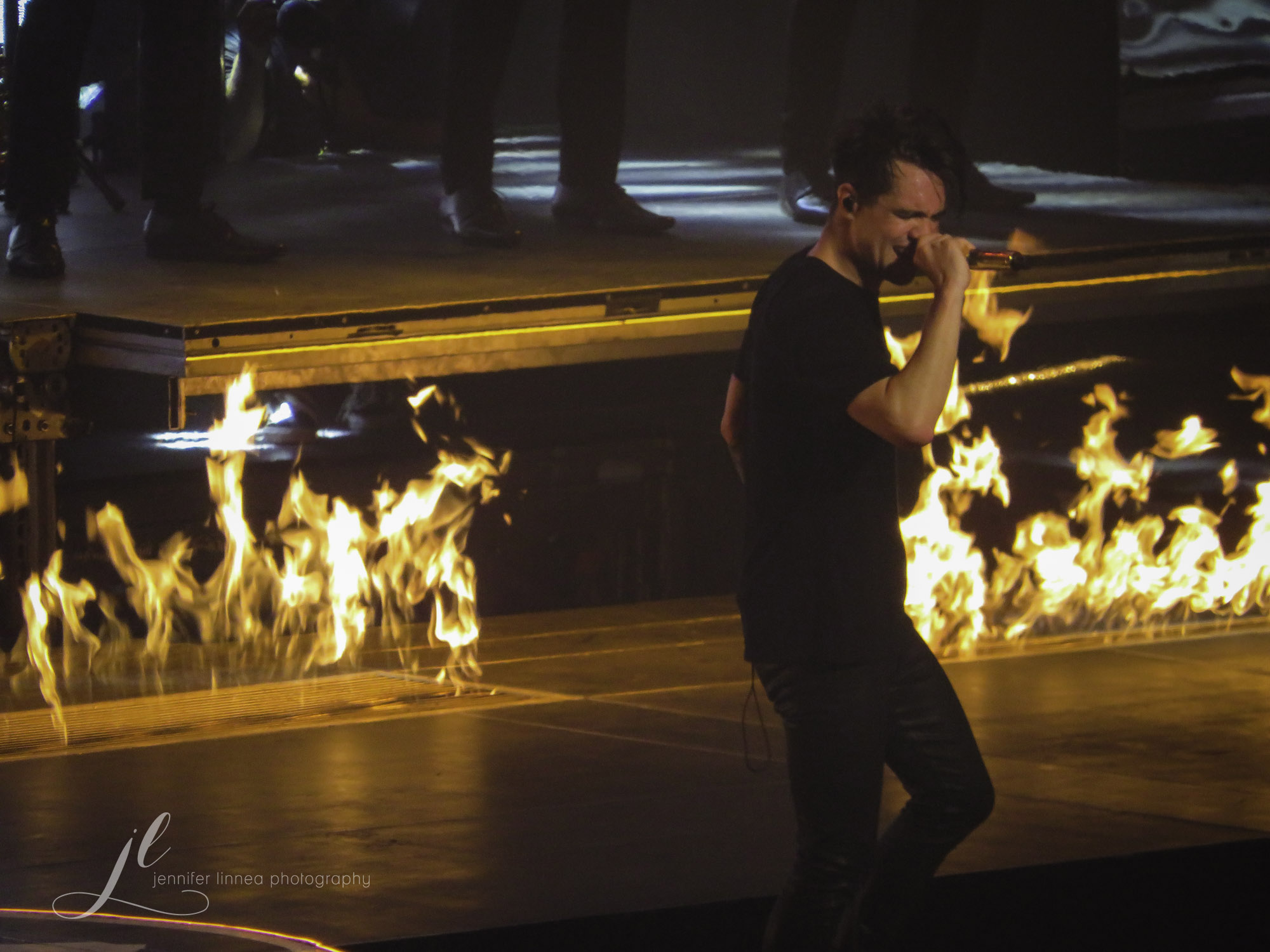 Brendon Urie on stage during Panic! At the Disco's Pray for the Wicked Tour stop in Denver, CO at the Pepsi Center on August 7, 2018.